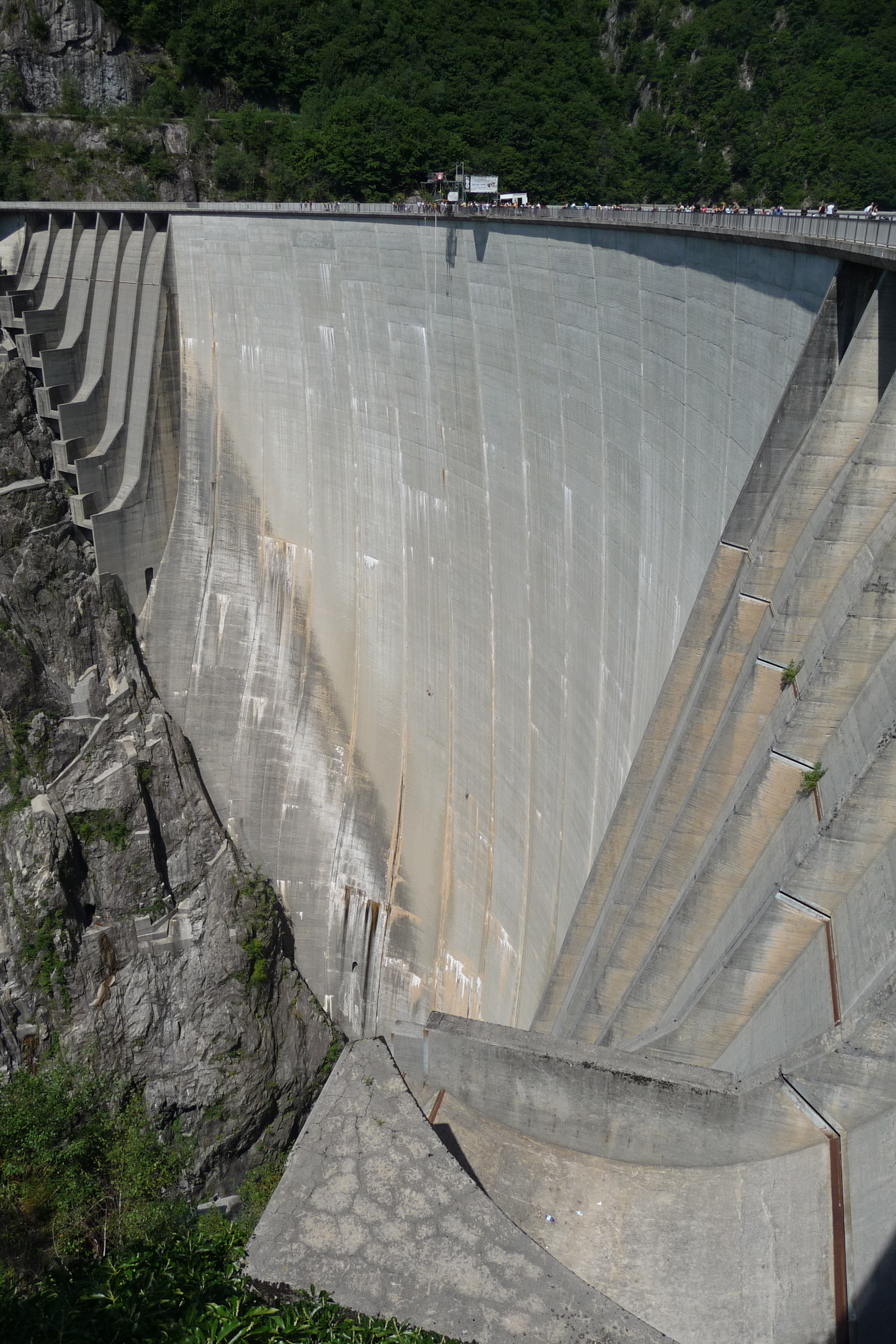 Verzasca Dam